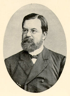 Rudolf Kaltenbach (1842–1892), German gynaecologist